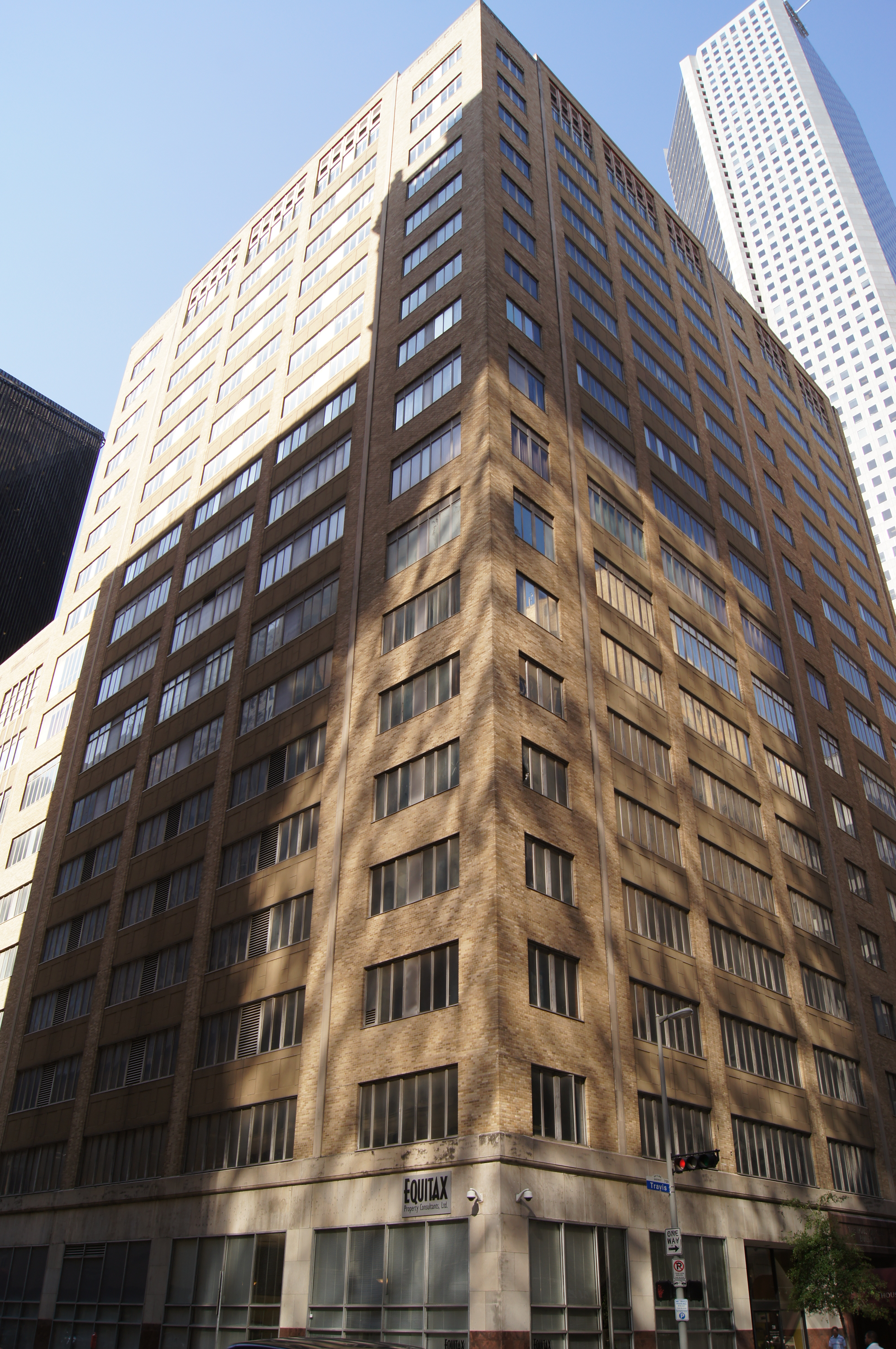 Wide view of The Houston club in Downtown Houston